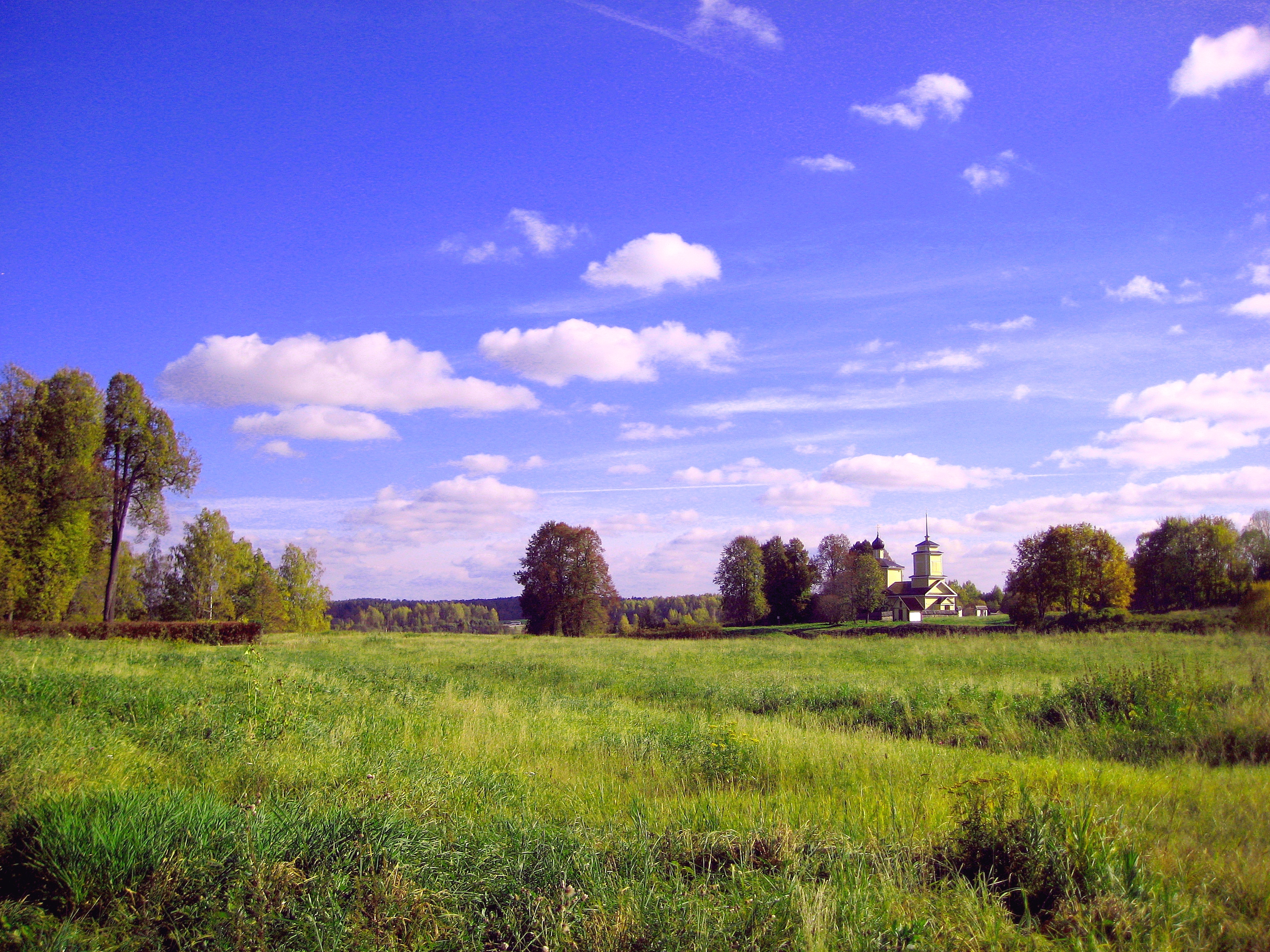 Manor Osipovs-Wolf: Trigorskoe, Pushkinogorsky district, Pskov region